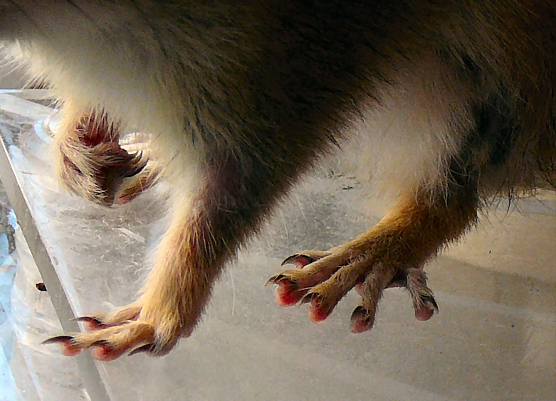 Siberian Chipmunk. Legs, close view.